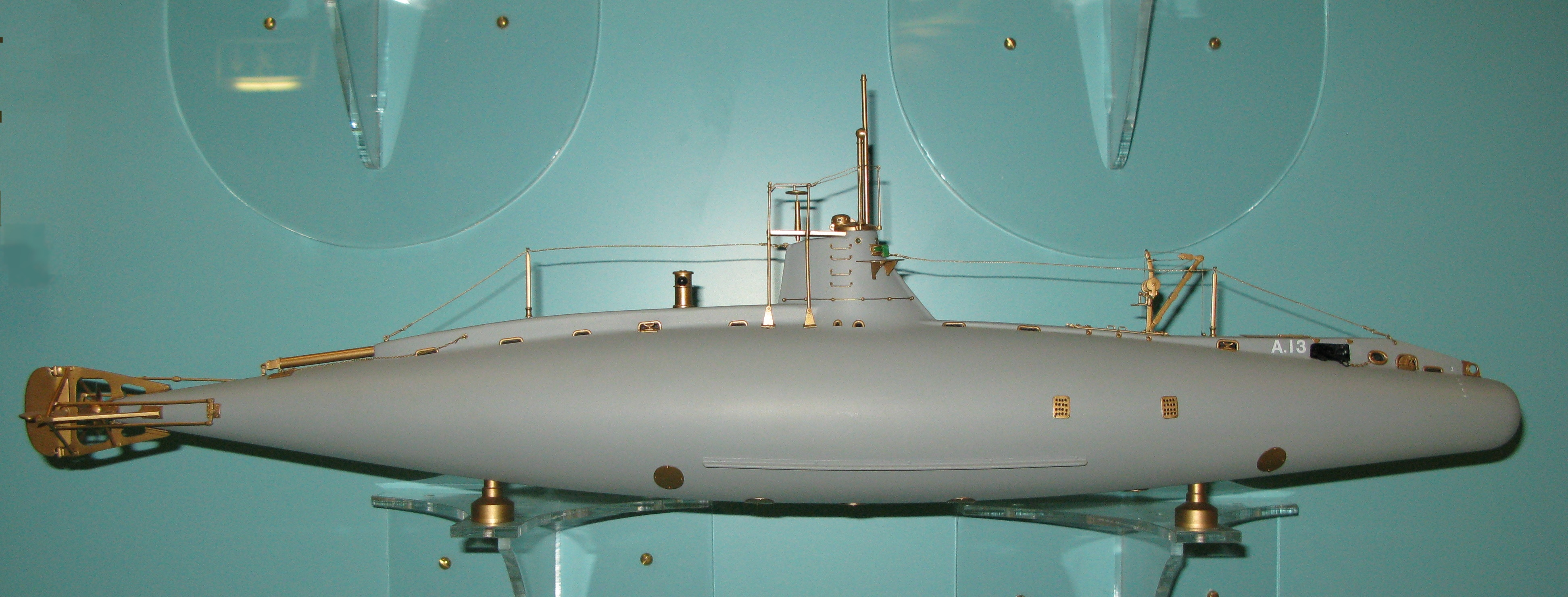 Photo of a model of the A class submarine HMS A13